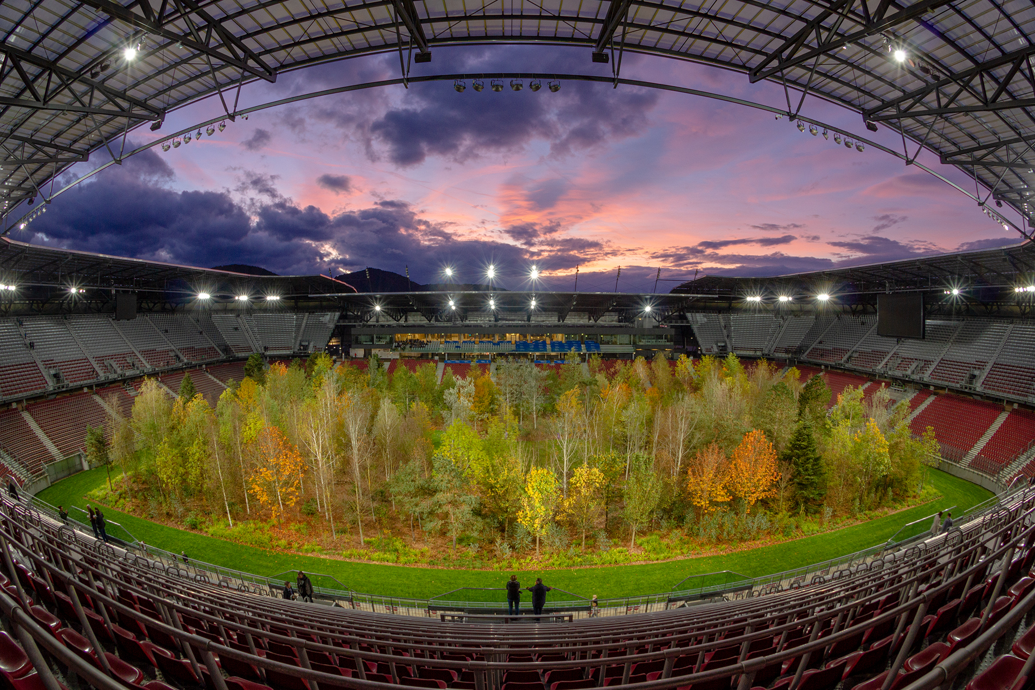 "For Forest. The Unending Attraction of Nature” was a temporary art intervention by Klaus Littmann in the football arena of Klagenfurt, Austria. The project was based on the pencil drawing “The Unending Attraction of Nature” by Max Peintner from the 1970s, which shows a small forest in a crowded stadium, surrounded a highly indistrialized world.